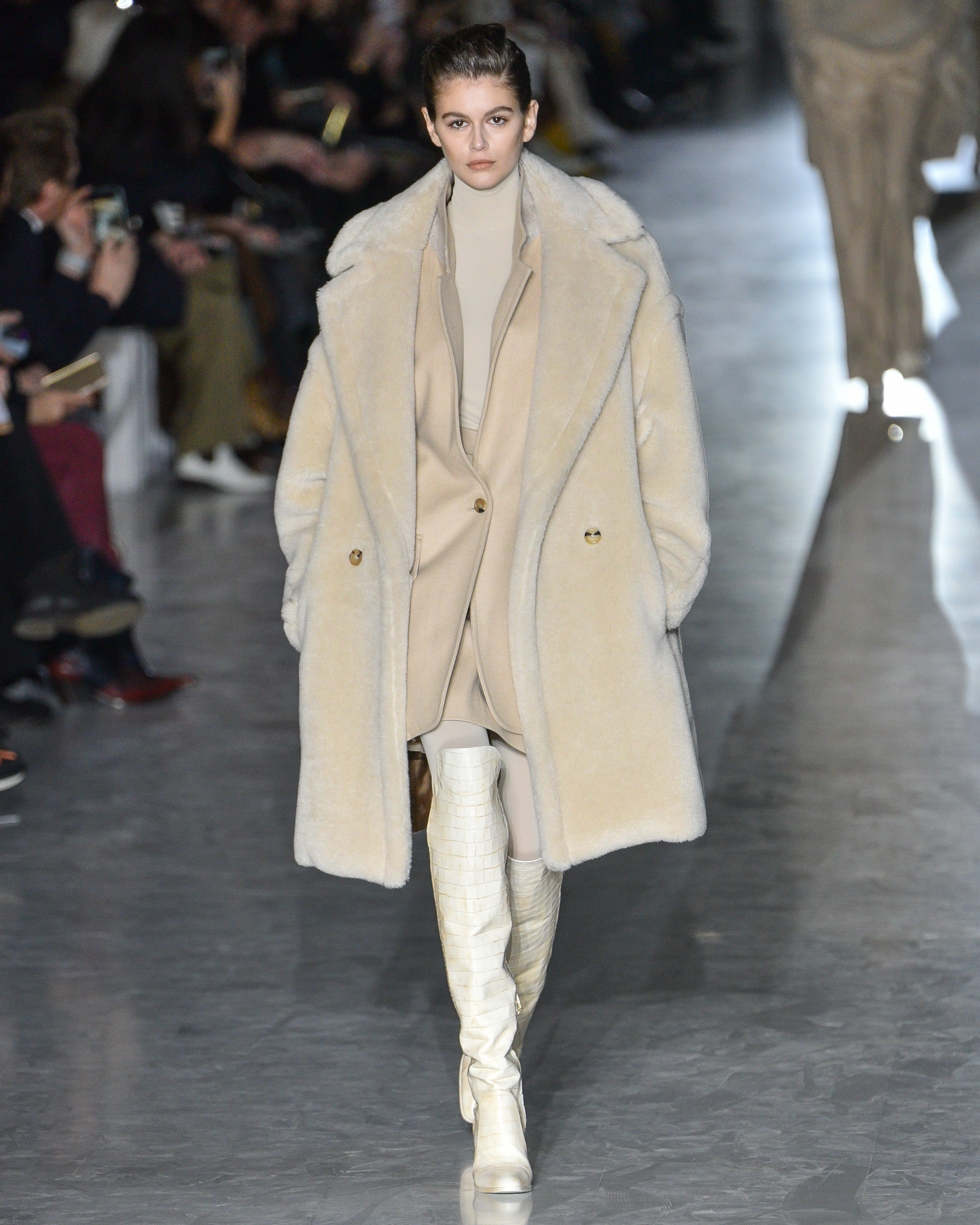 Max Mara FW19 at Bocconi University Milan